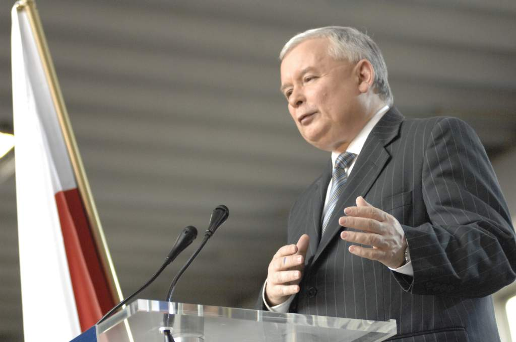 Former polish Prime Minister in Lublin